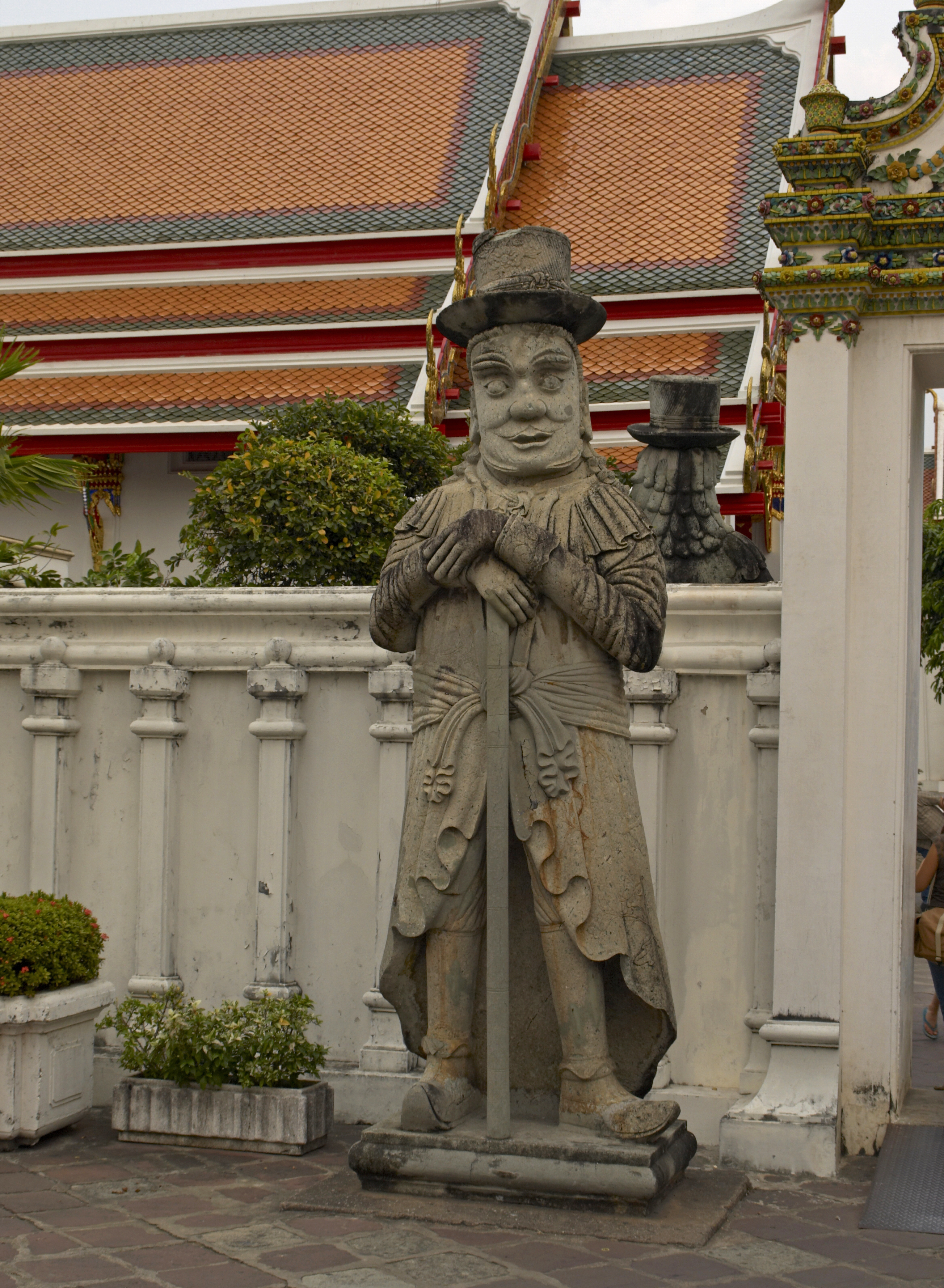 Farang statue at Wat Pho, Bangkok